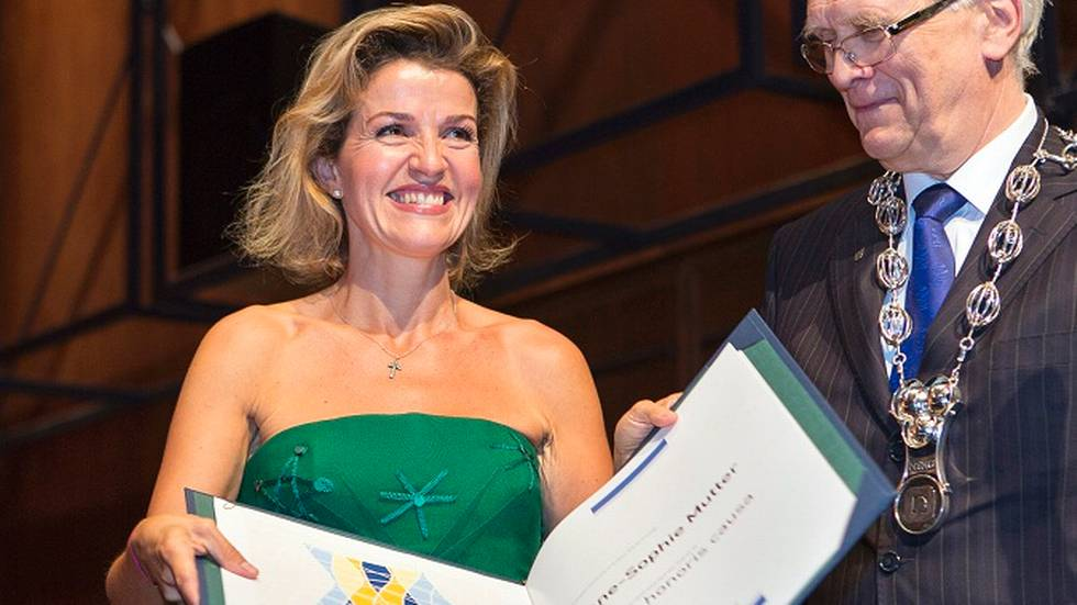 The violinist Anne-Sophie Mutter receiving her honorary doctorate at NTNU in Trondheim. Right: Rector Torbjørn Digernes